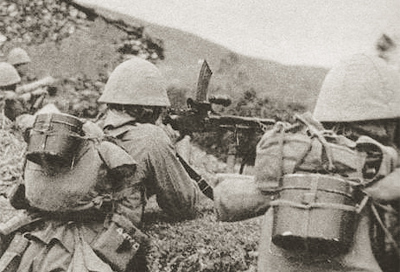 IJA soldiers aiming weapon